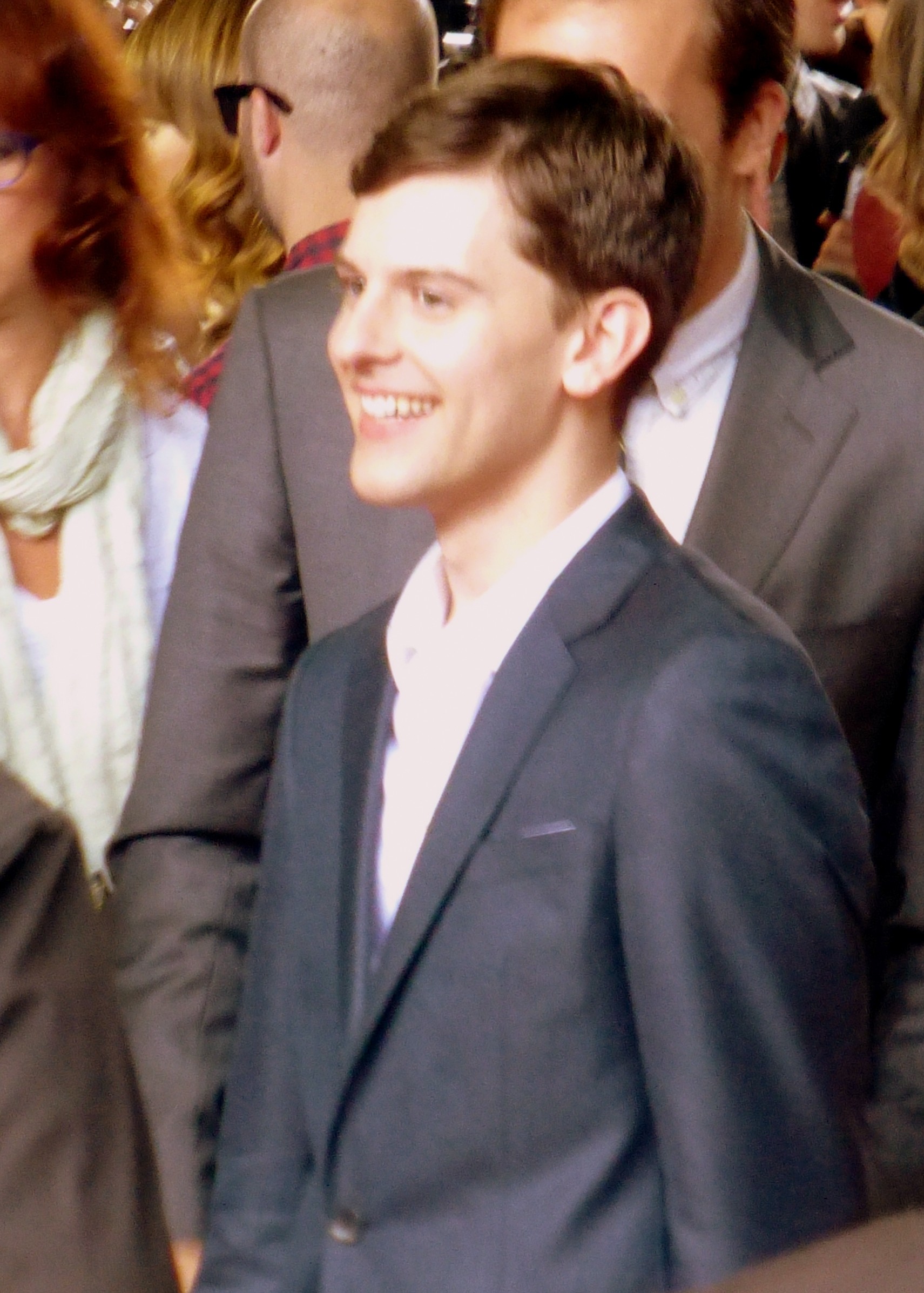 Travis Tope at the premiere of Men, Women, and Children, 2014 Toronto Film Festival